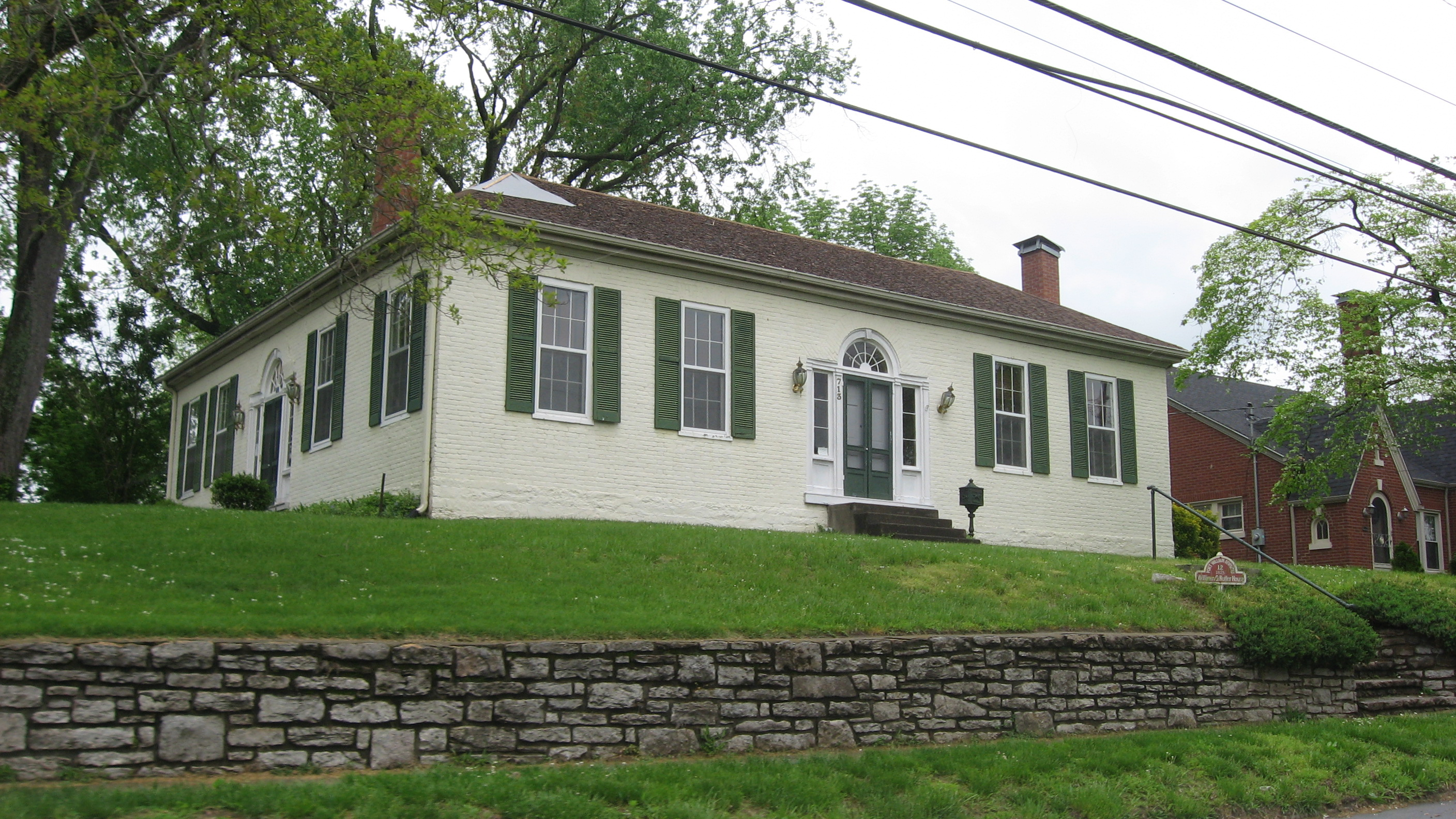 Front and western side of the Gen. William O. Butler House, located at 713 Highland Avenue (U.S. Route 42/Kentucky Route 36) in Carrollton, Kentucky, United States. Built in 1819, it is listed on the National Register of Historic Places, and it is part of a Register-listed historic district, the Carrollton Historic District.